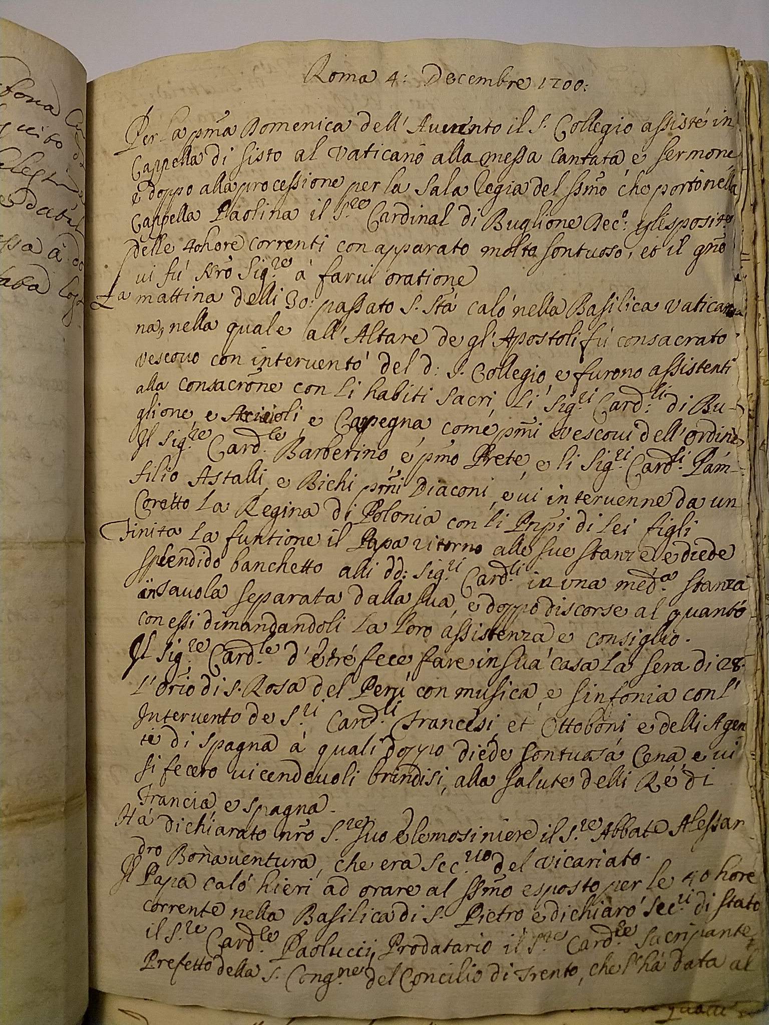 Periodical hand-writing newssheet with news from Rome of 4 Dec 1700